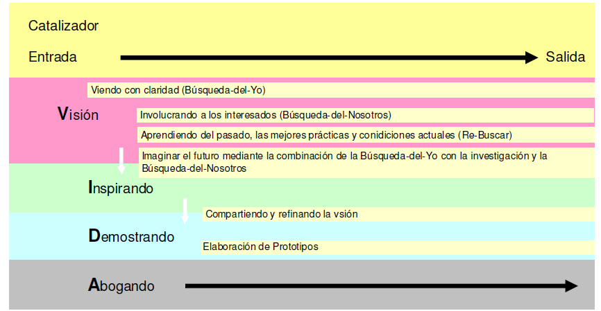 Traducido por Gilda B. Plazas G. de Restorative Urbanism: From Sustainability to Prosperity by Nan Ellin For Sustainable Urbanism and Beyond Ed., Tigris Haas October 12, 2010 Revised October 24, 2010